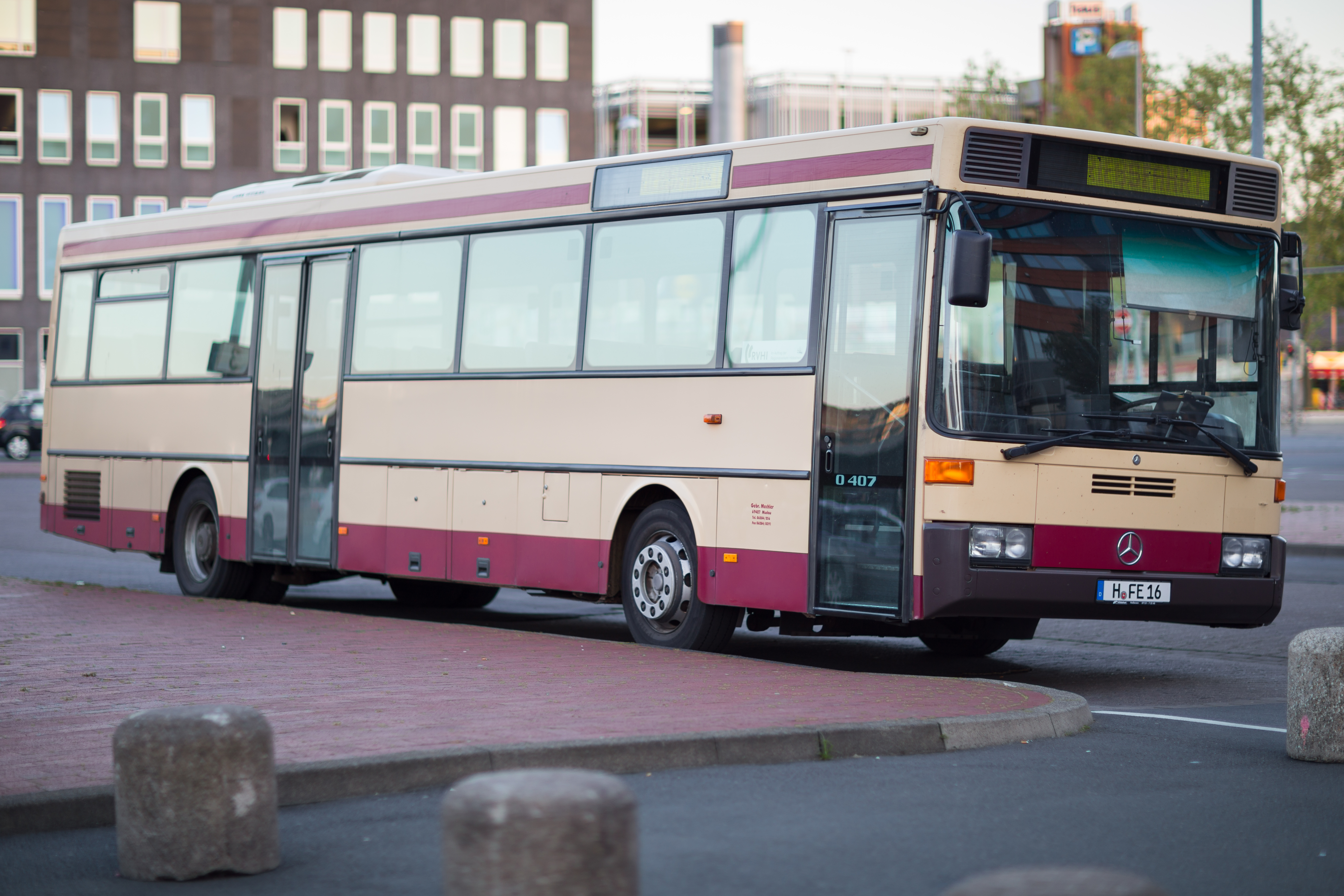 Country bus Mercedes-Benz type O 407 parked at the central bus station of Hannover, located in Mitte quarter of Hannover, Germany.